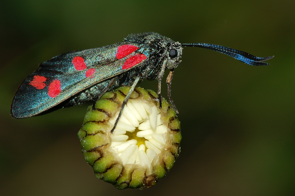 Burnet or Forester moth, Zygaena spec., Bedarieux, Languedoc-Roussillon, France